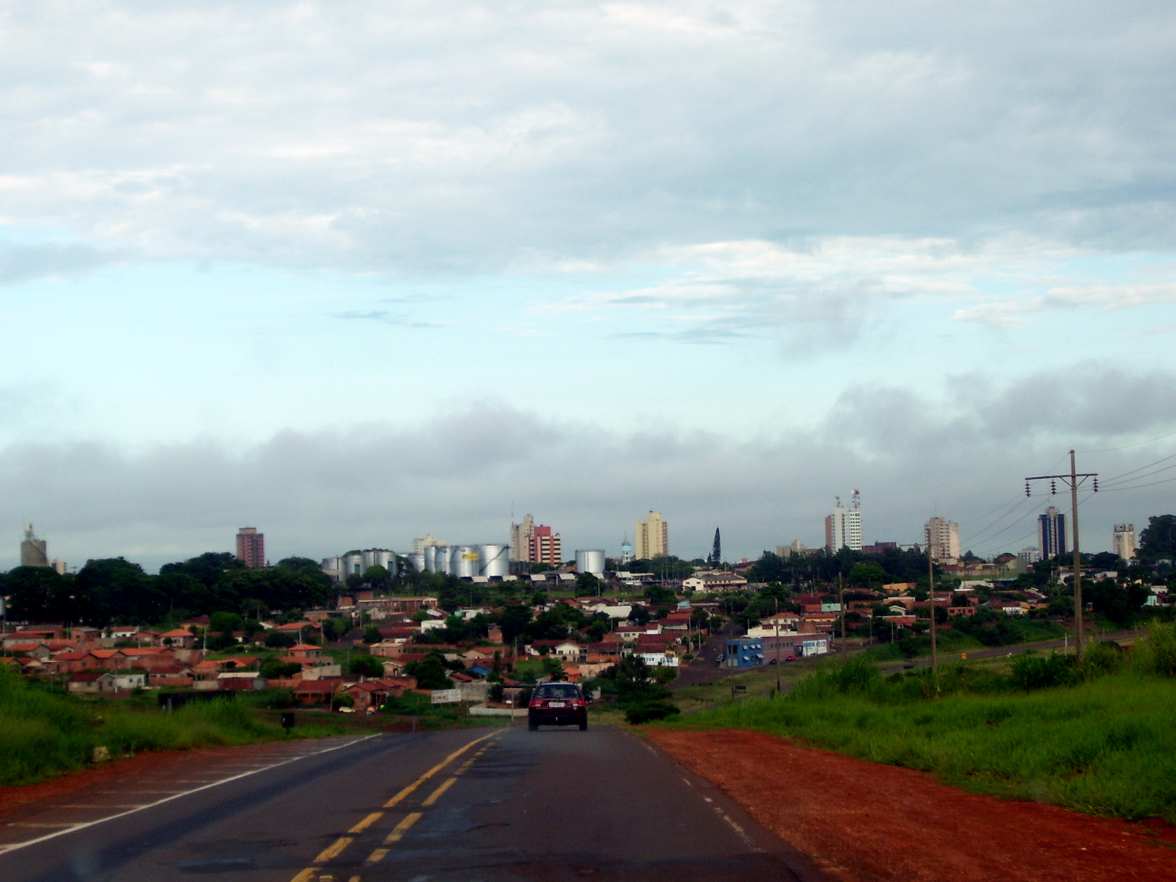 View of Ourinhos, São Paulo, Brazil.